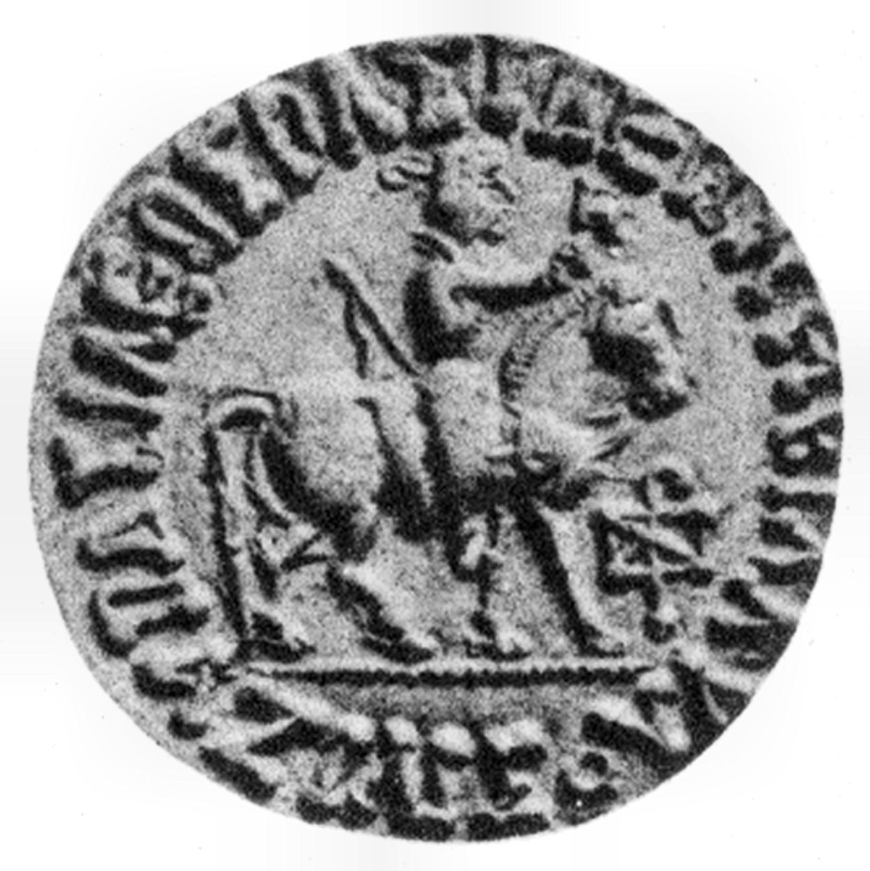 Coin of Indo-Scythian king Azilises